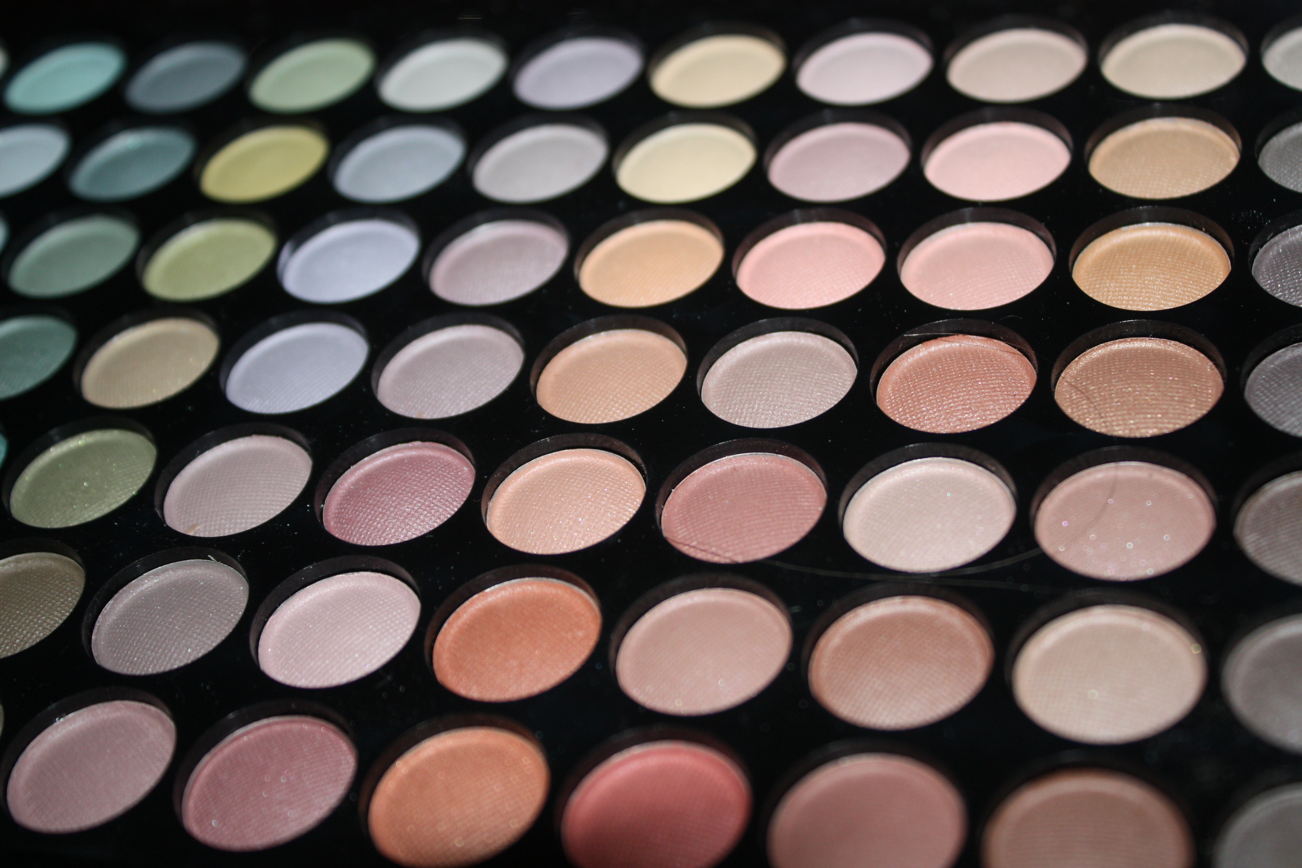 A palette with eye shadows of different colors.